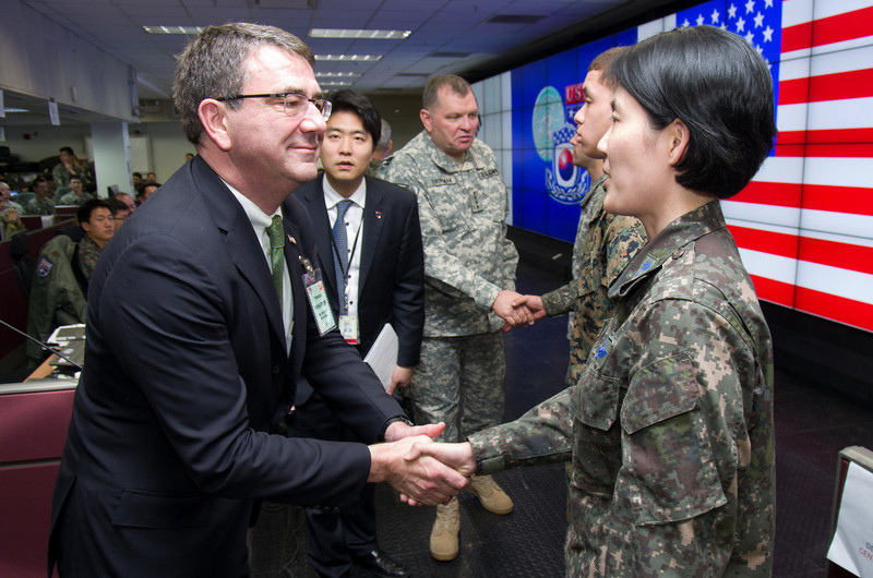 Deputy Secretary of Defense Ashton B. Carter personally thanks and "coins" Korean and U.S. forces assigned to the Joint Operations Center of Command Post Tango near Seoul, South Korea, March 18, 2013. Carter thanked the troops for their service and reminded them to thank their family members for the sacrifices they make in serving their countries. (DoD Photo By Glenn Fawcett) (Released) Interested in following U.S. Forces Korea? Engage and connect with us at and and